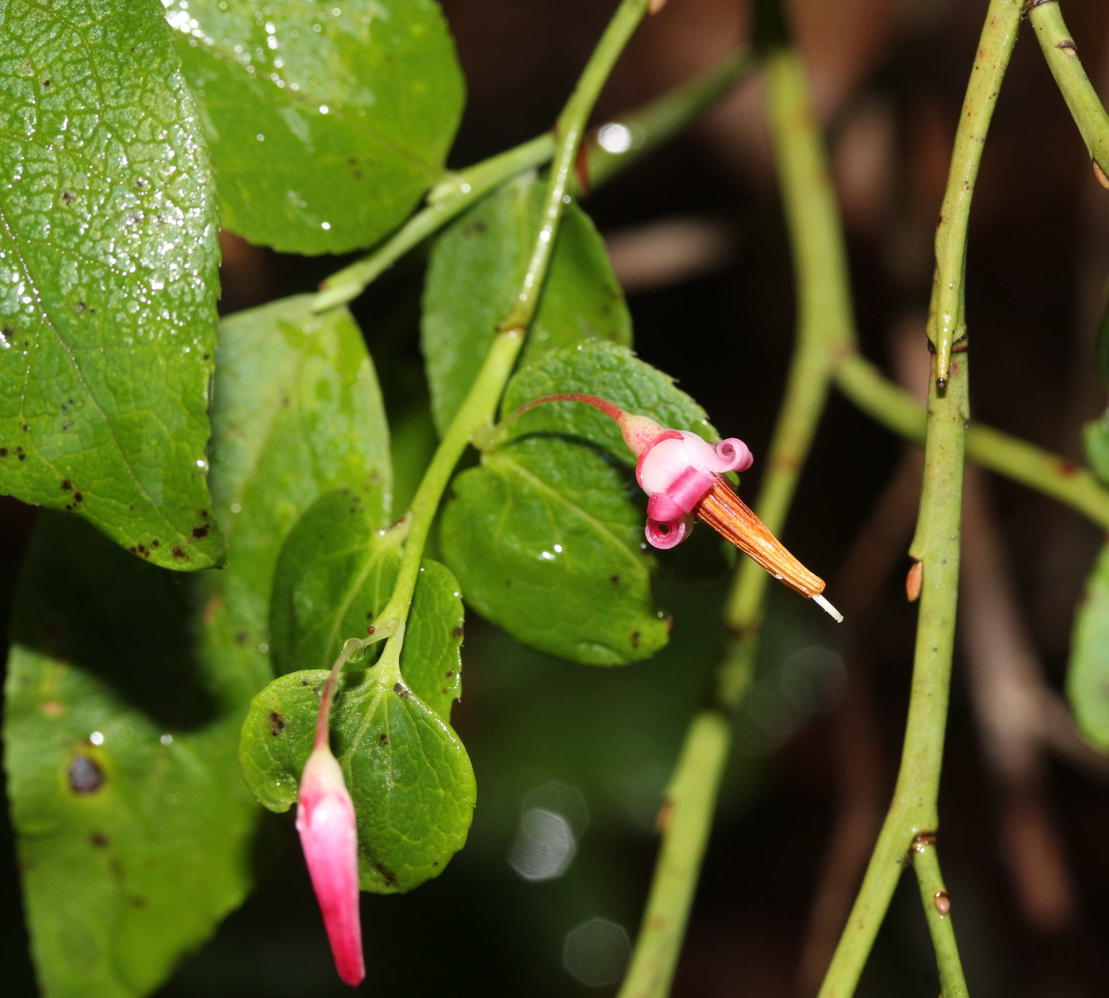 Vaccinium japonicum in Mount Kasa, Hida Mountains, Takayama, Gifu prefecture, Japan.